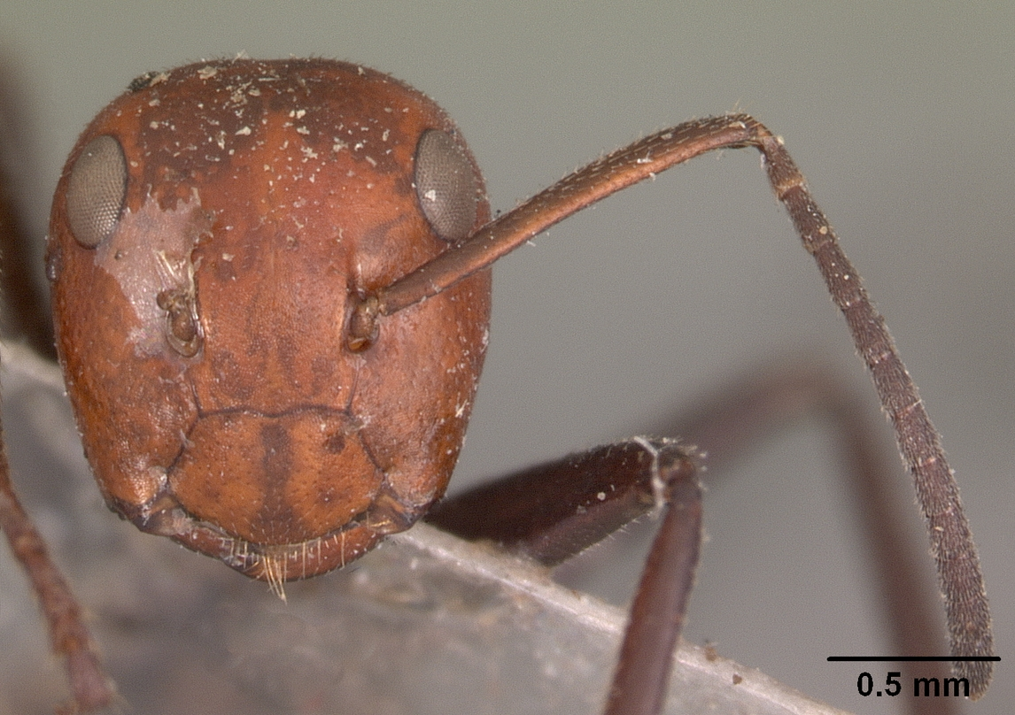 Head view of ant Camponotus cylindricus specimen casent0102444.